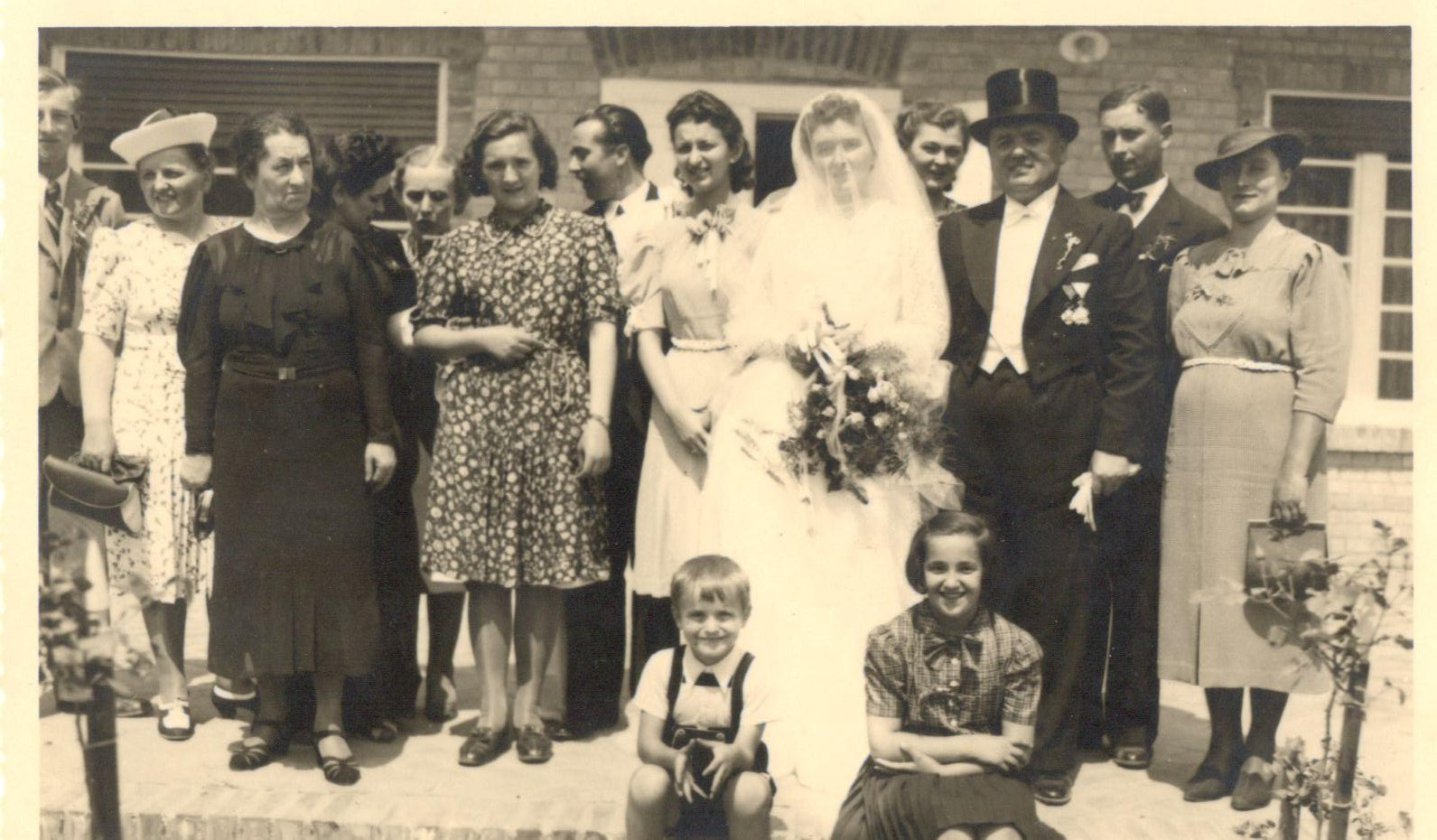 The wedding of Vera Milic and Ilija Milovancev, June 1939. In the photograph on the left, with a hat, Ilija's sister Katica